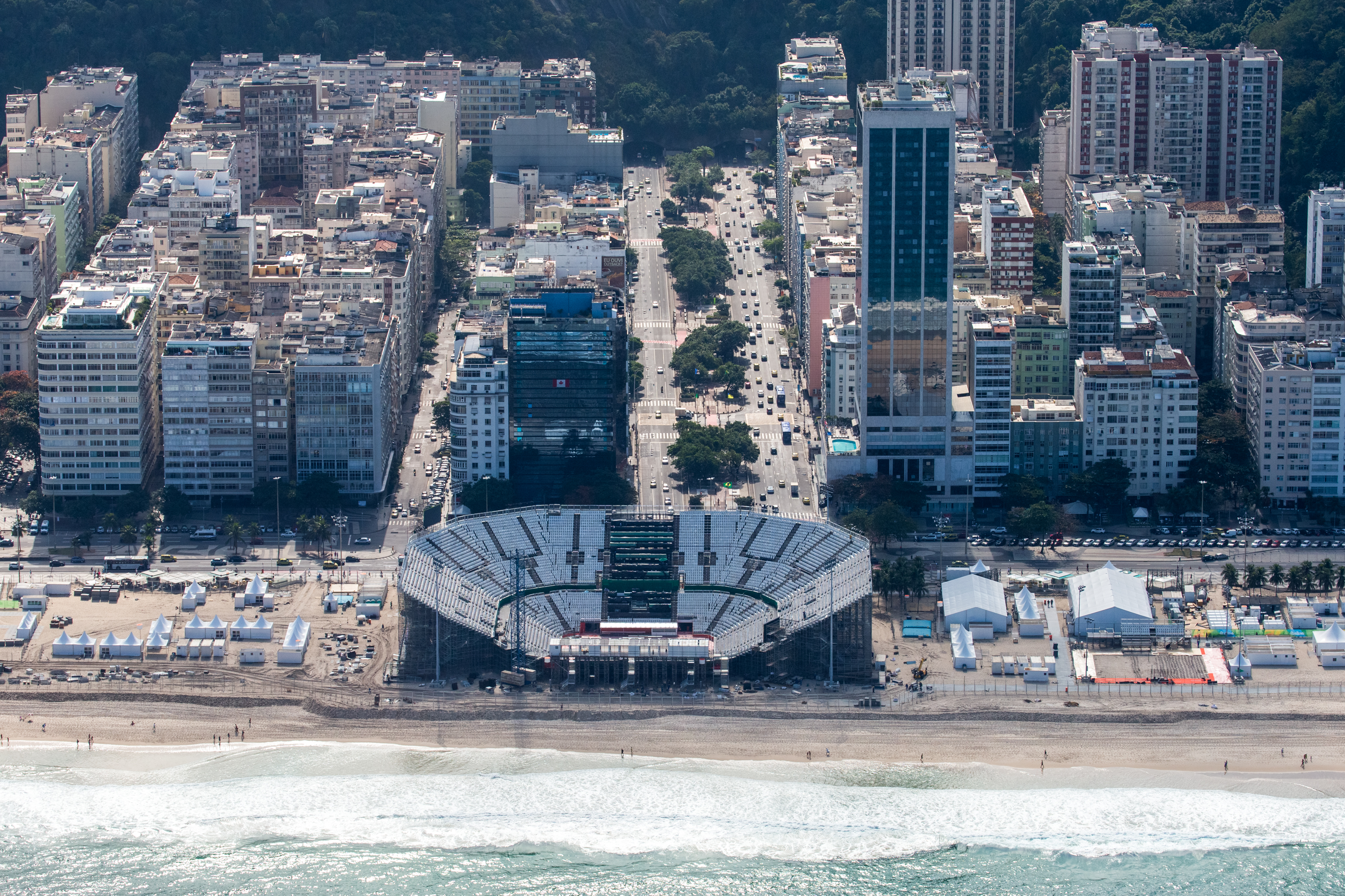 Temporary Copacabana Stadium 2016, buildt for the 2016 Summer Olympics on Copacabana Beach. The road behind is Avenida Princesa Isabel.